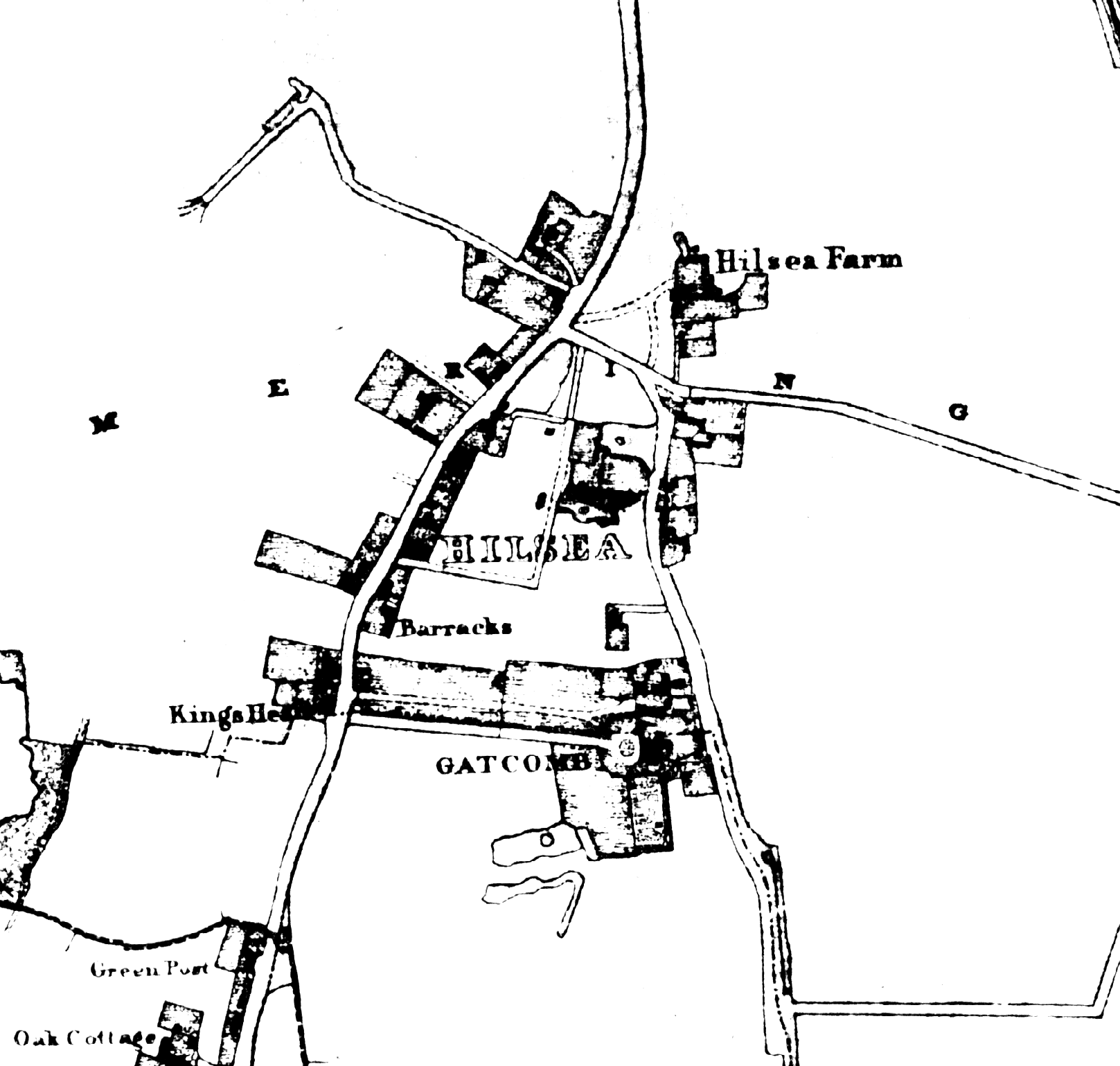 Scan of a section of a map of Portsmouth showing Hilsea